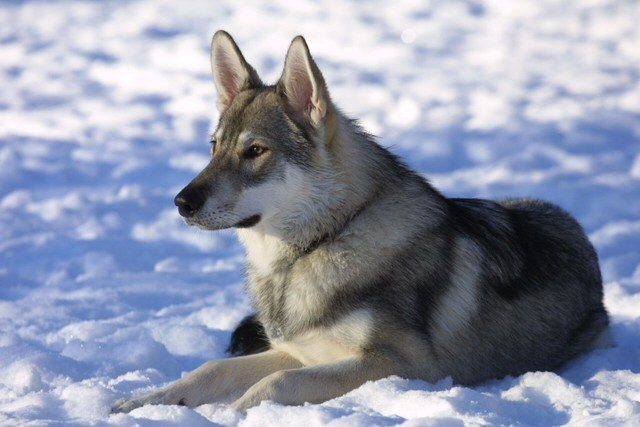 Tamaskan dog